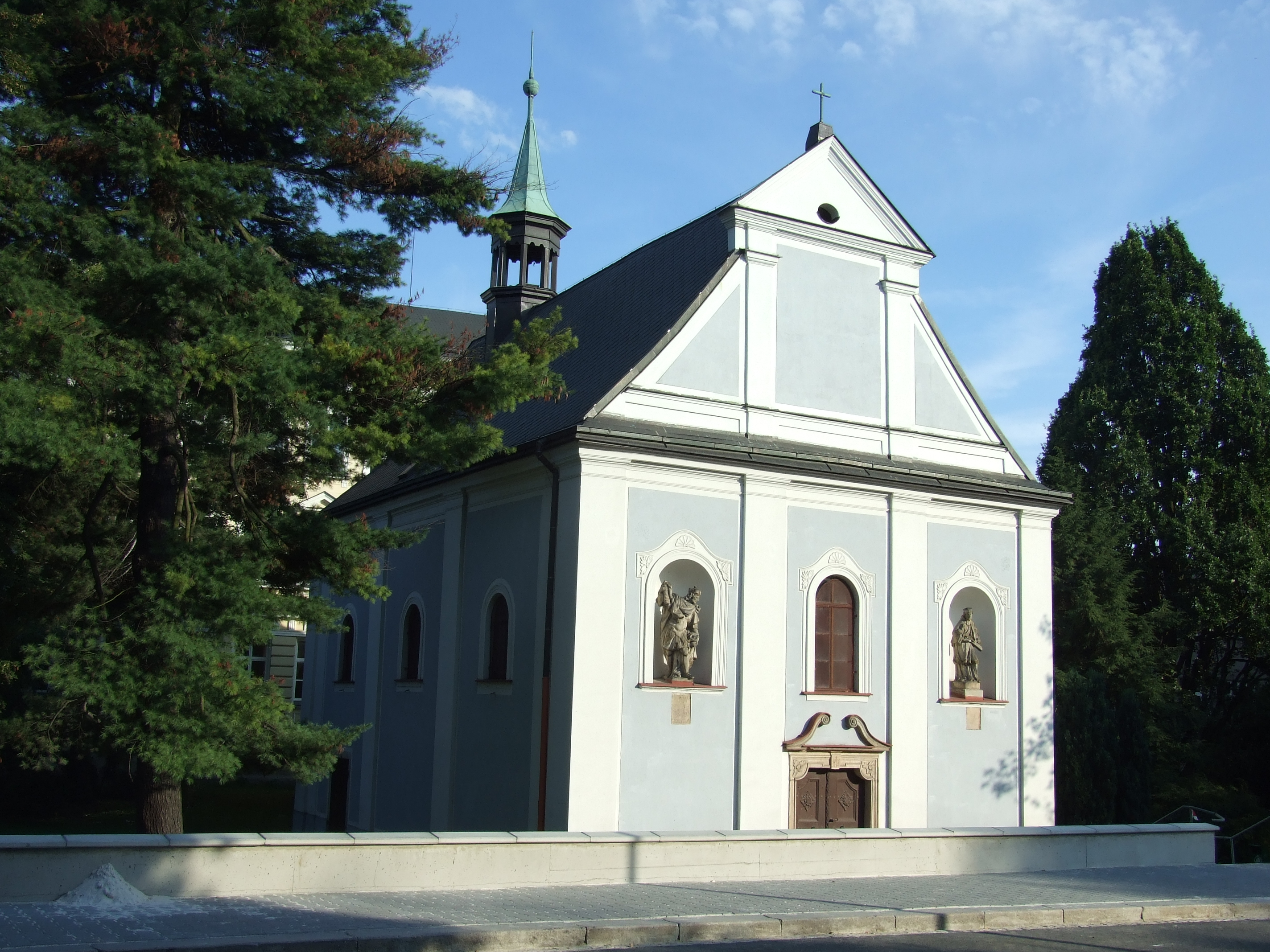 St. Michael Archangel church in Náchod